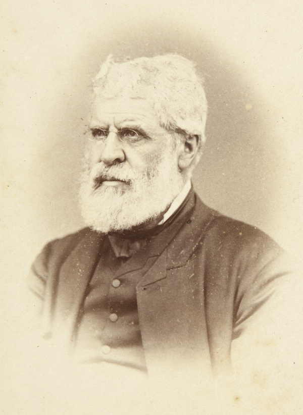 1867 portrait of Henry Samuel Chapman. Albumen silver carte-de-visite on mount 10.7 x 6.5 cm.